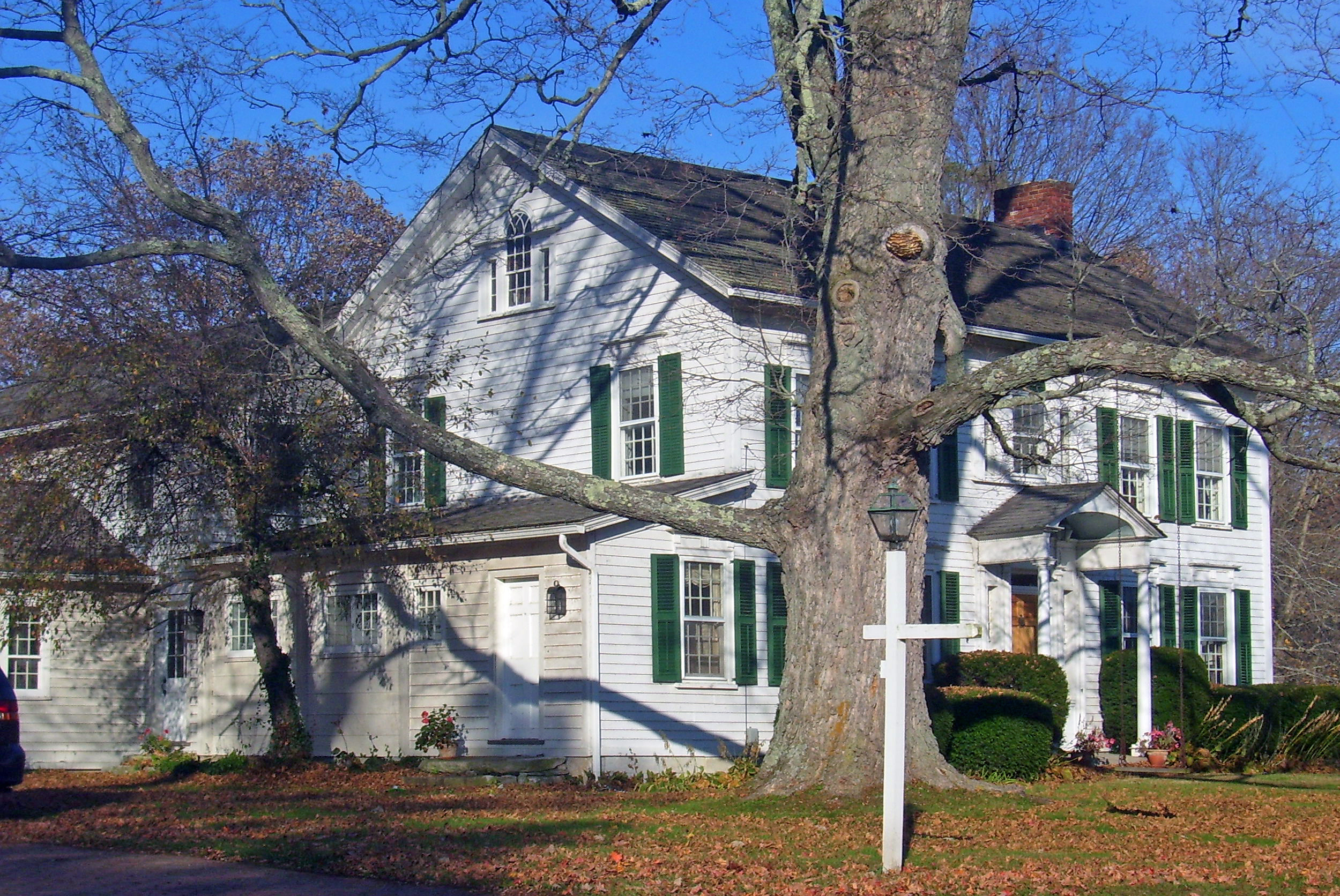 Dakin-Coleman Farm, contributing property to Coleman Station Historic District, south of Millerton in the Town of North East, NY, USA